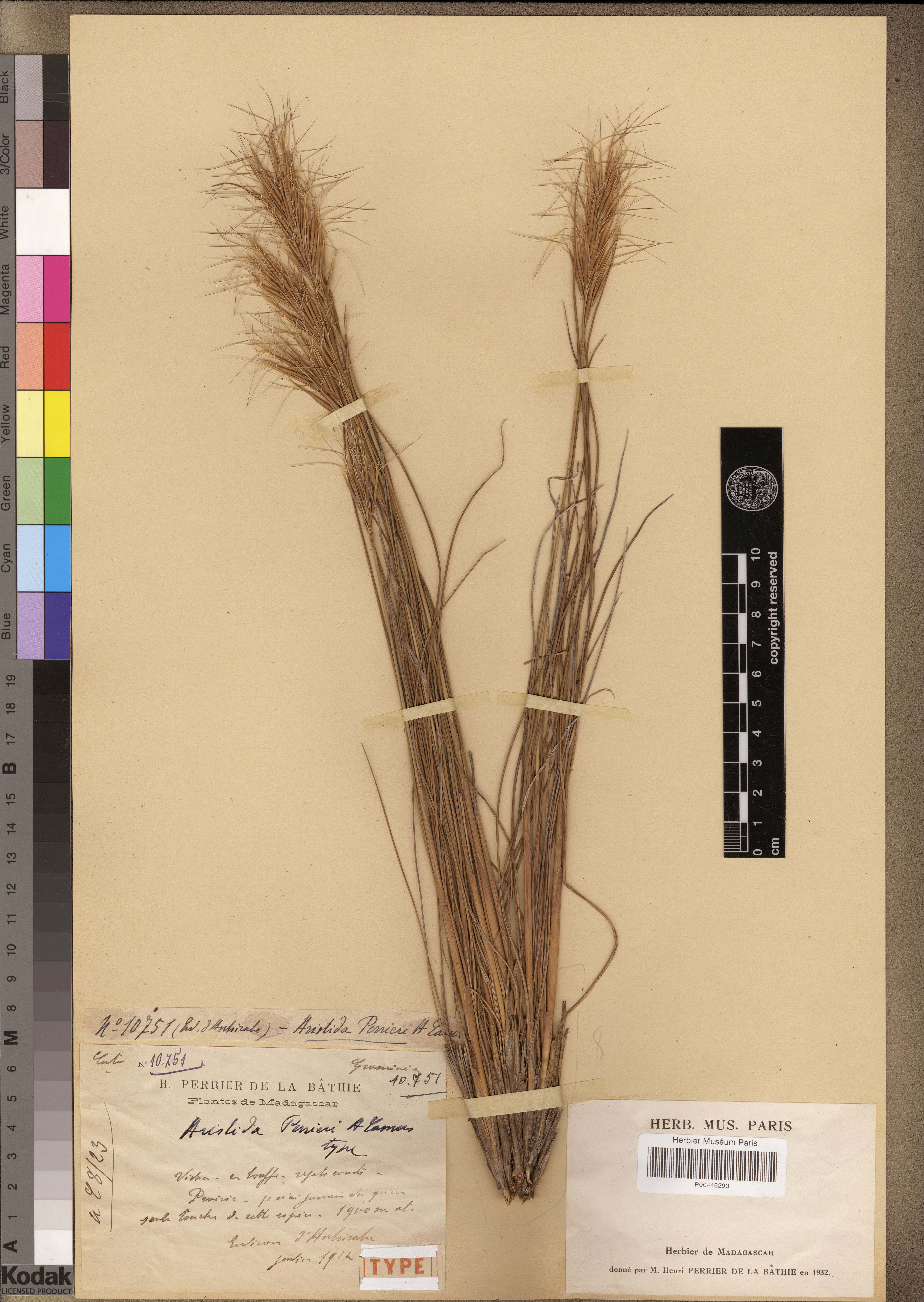 Scan of the type specimen of the grass species Sartidia perrieri from Madagascar, described by Aimée Antoinette Camus. Collected 1914 by Henri Perrier de la Bâthie (collection number 10751) in the central highlands around Antsirabe at an elevation of 1,900 m; now preserved at the Muséum National d'Histoire Naturelle in Paris under herbarium number MNHN-P-P00446293. This is the only specimen ever collected of this species, which is now considered extinct.